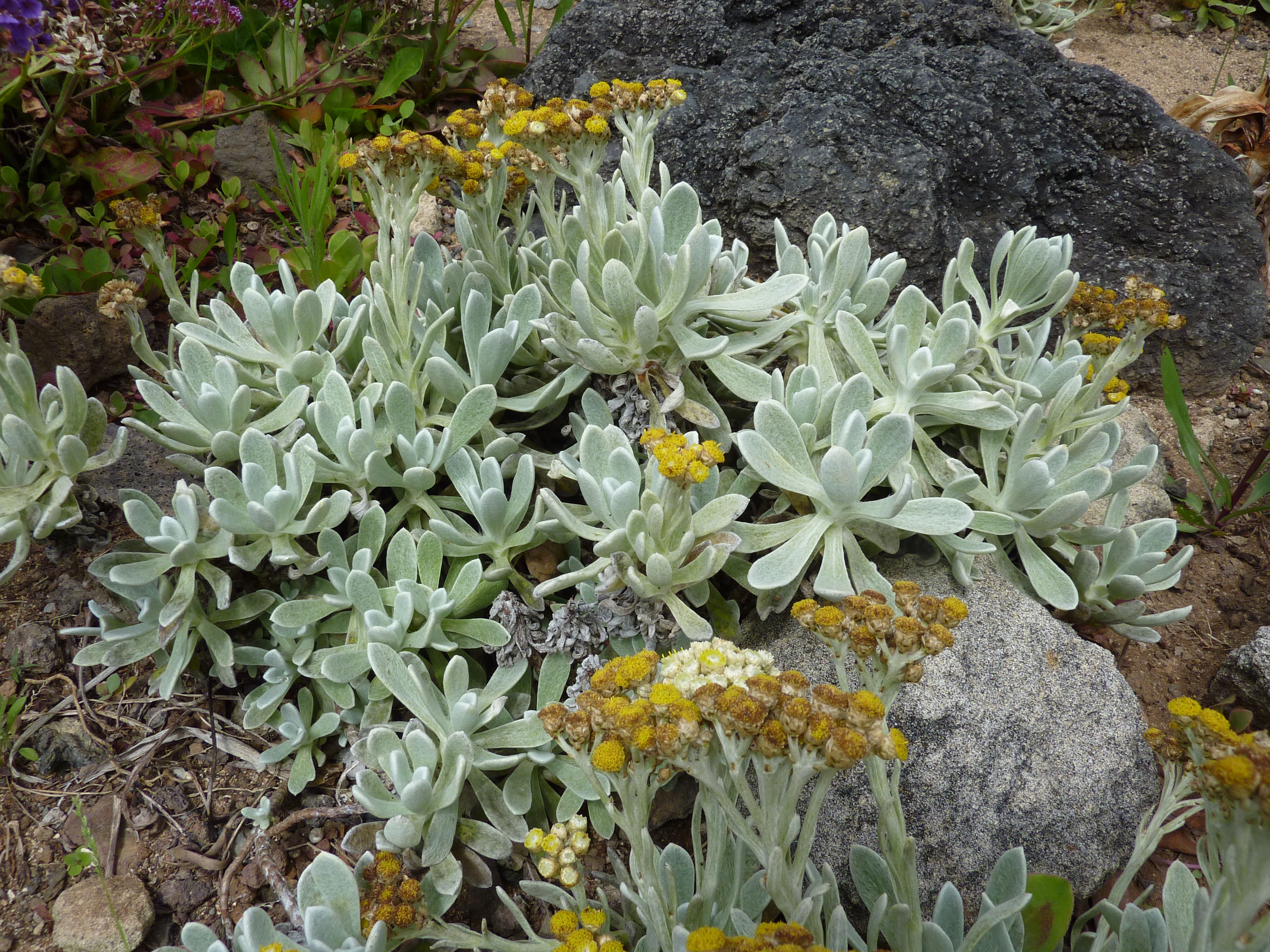 Helichrysum gossypinum in the Jardín Botánico Canario Viera y Clavijo, Gran Canaria. This plant is endemic on Lanzarote.